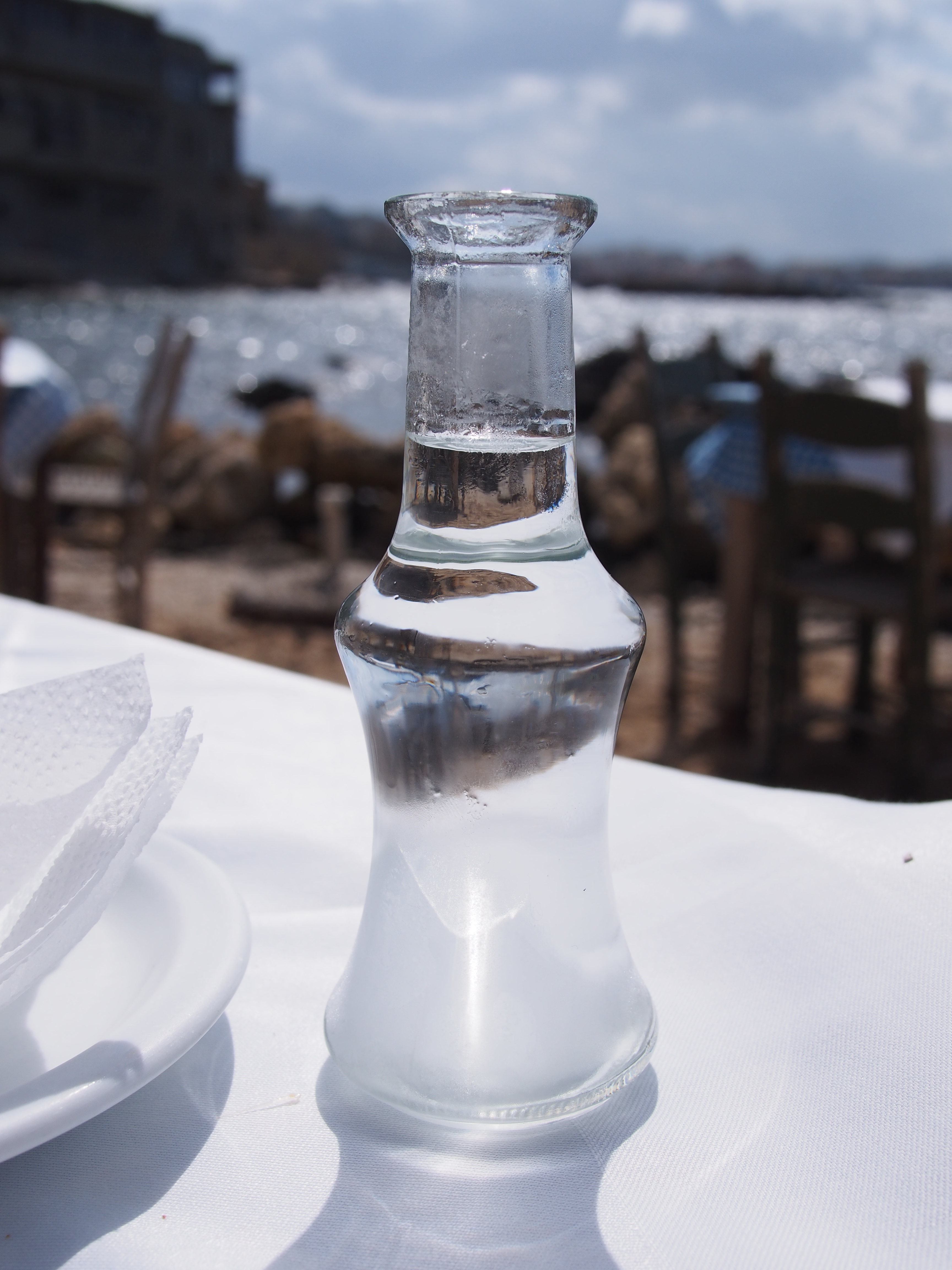 A bottle of home made tsikoudia, a distillated alchoholic beverage made in Crete, served in a restaurant in Chania.